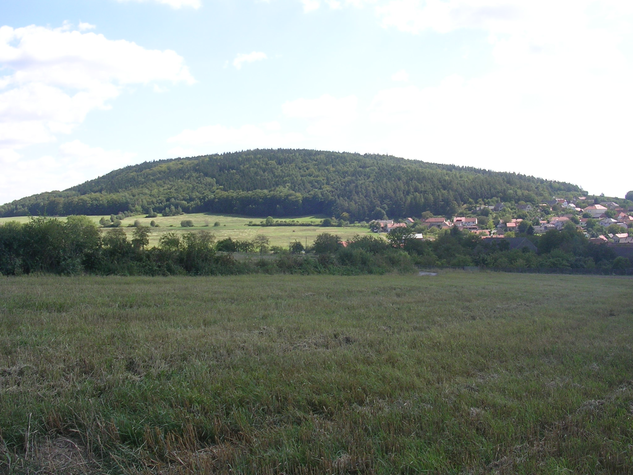 Kublov, Beroun District, Central Bohemian Region, the Czech Republic. Velíz Hill.